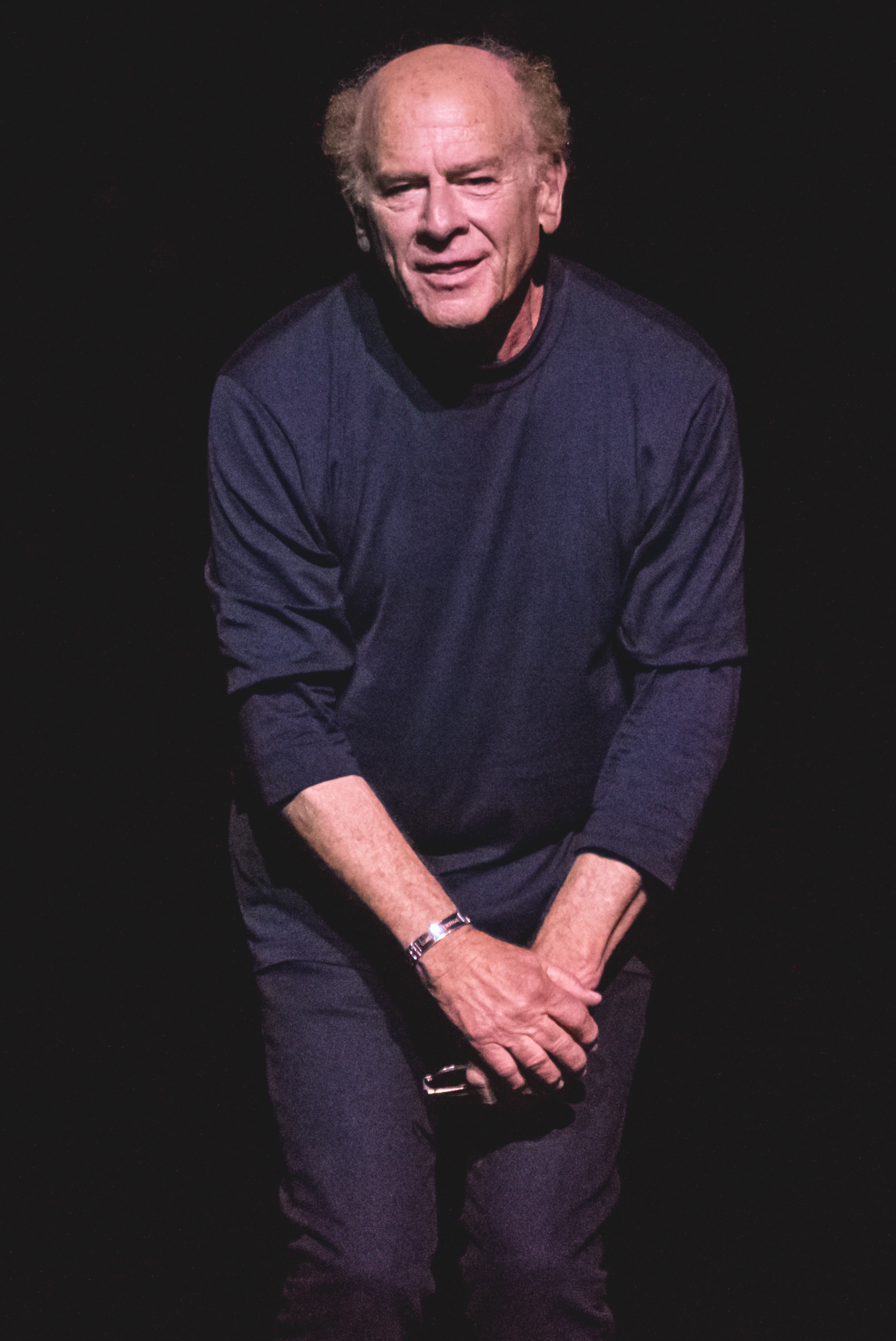 Art Garfunkel performing in the London Palladium in July 2017.